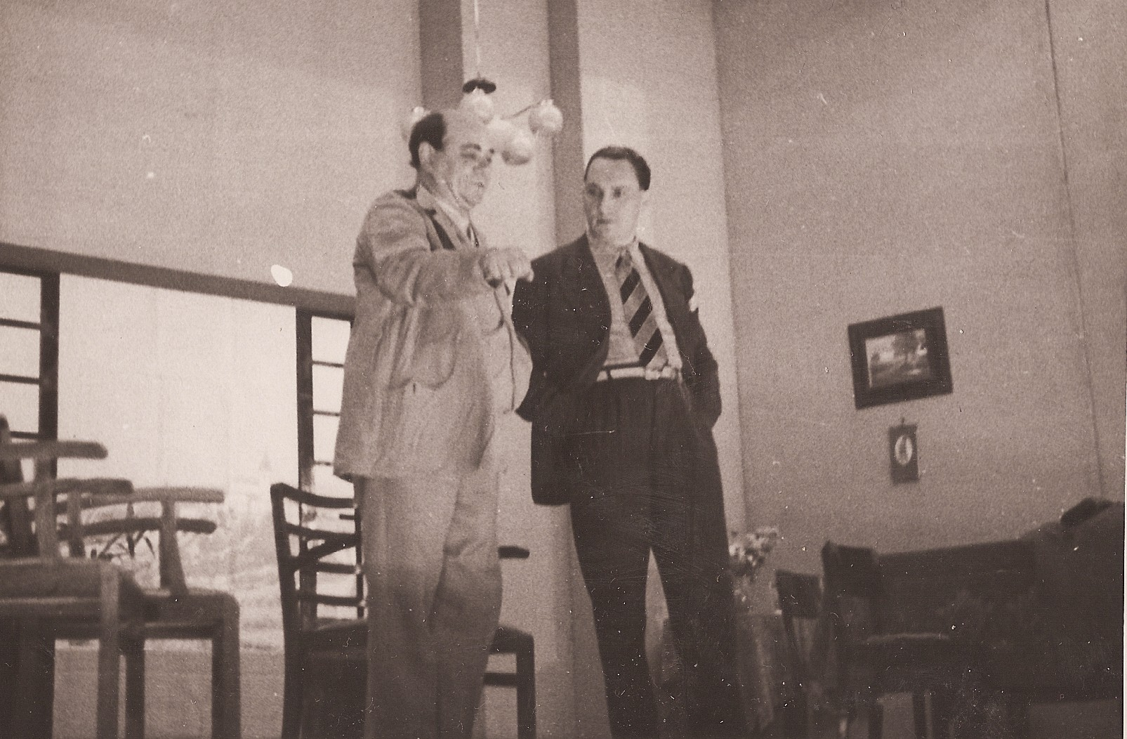 Gaetano Bonanni and Checco Durante on set of "La bon'anima" 1939